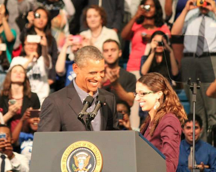 A State University of New York at Buffalo student, Silvana D'Ettorre, introduces President Obama at a speech given in Alumni Arena on August 22, 2013.